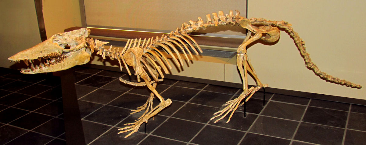 Pakicetus attocki, Royal Ontario Museum, Toronto, Ontario, Canada